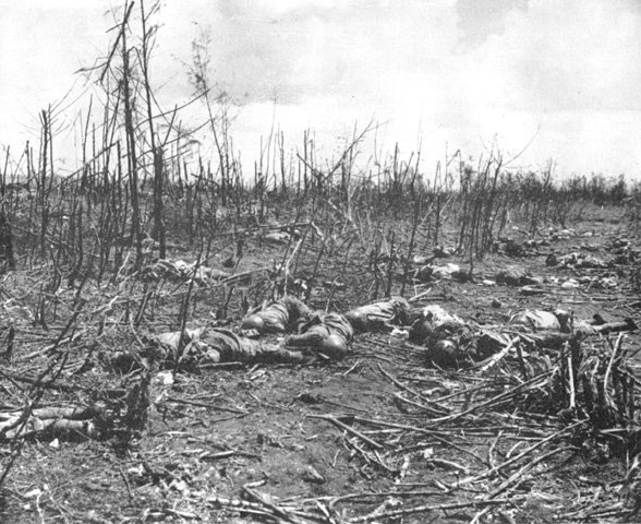 Japanese soldiers killed in the suicide attack in the night from 23 to 24 July.